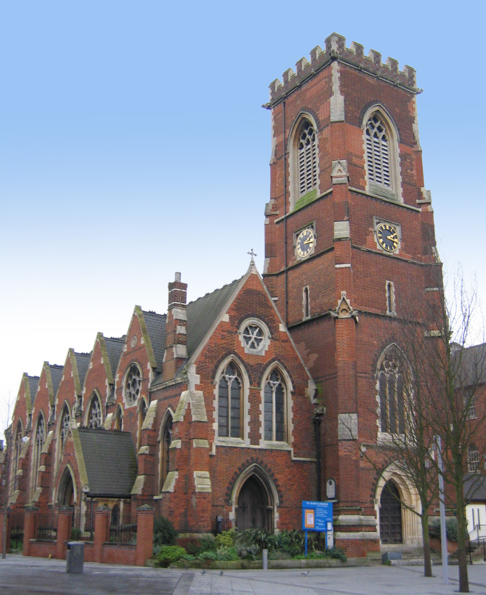 St Mary's parish church, Acton, London W3, seen from the northeast. This image was originally on Wikipedia, and is being moved by its author under the same name.